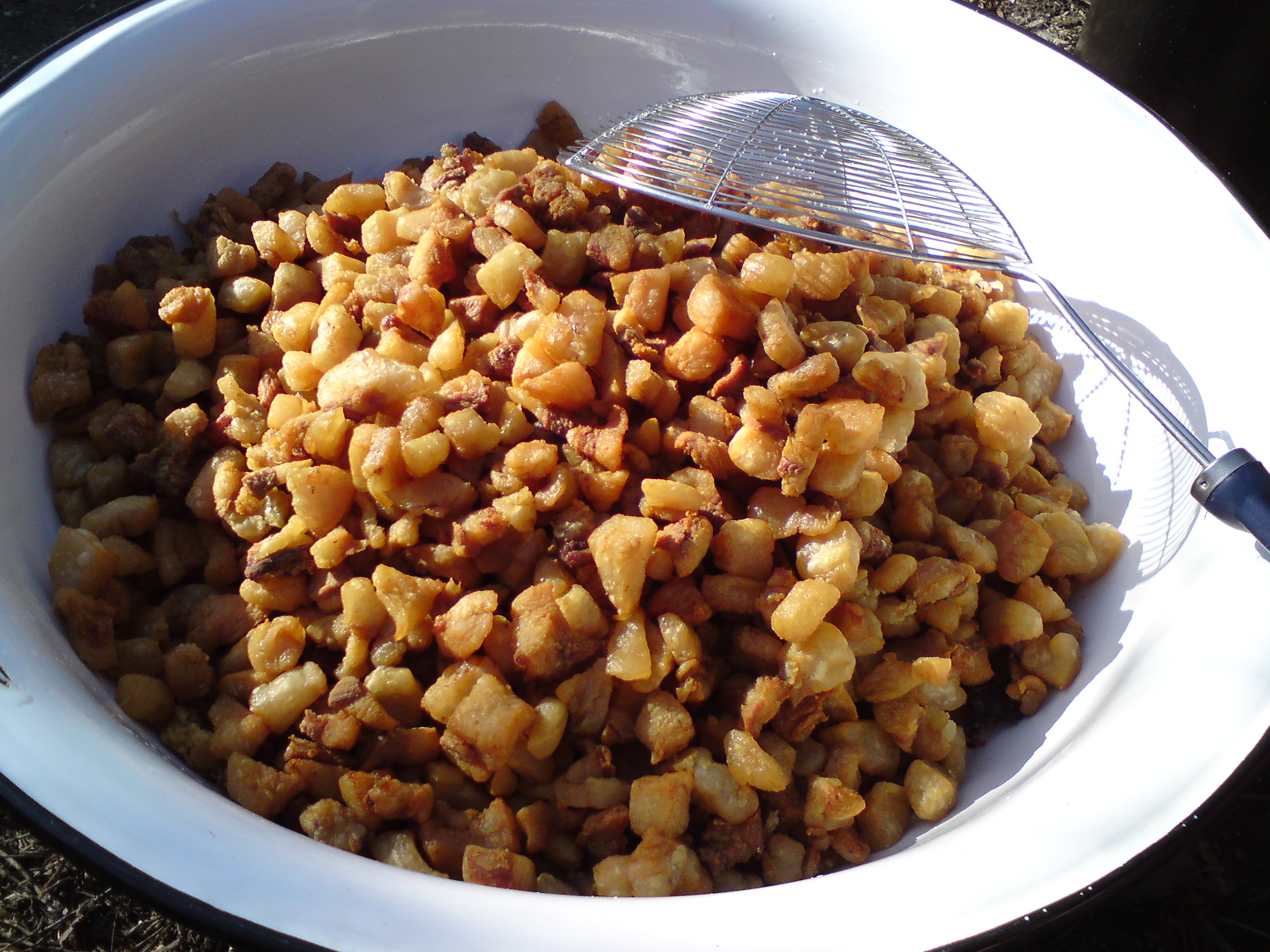 Pork rind in Bulgaria